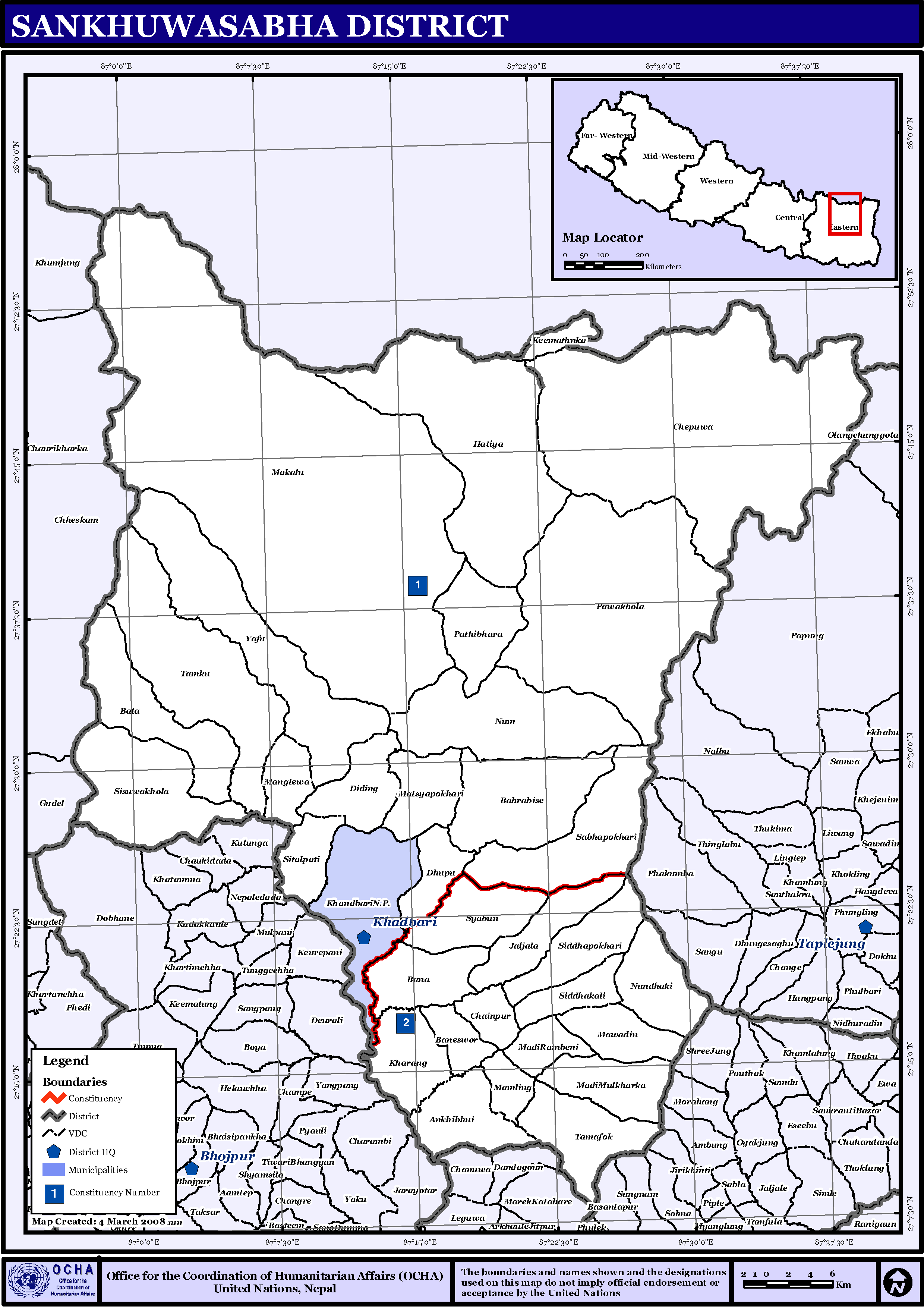 Map displaying Village Development Committees in Sankhuwasabha District, Nepal